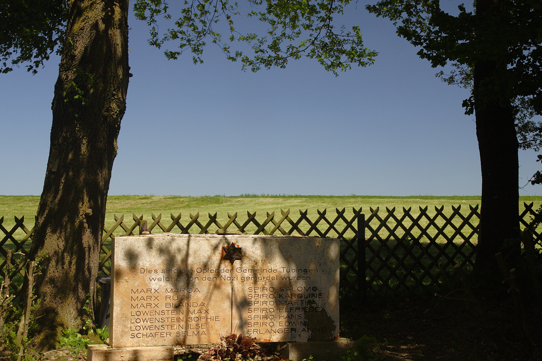 The enclosed Jewish cemetery Wankheim (1789-1941) is situated at a woodland edge outside the village Wankheim and ca. 3,6 km from center Tübingen. The last gravestone is that for Albert Schäfer, who was deported to KZ Dachau after the November events of the Kristallnacht. His death was in consequence of the treatment there. In 1880 the Jewish community of Tübingen and Reutlingen took over the cemetery. While old gravestones are simple sandstone with Hebrew typeface, newer steles are in Latin showing prosperity and assimilation to their Christian environment. The cemetery was heavily vandalized in 1939, yet again in 1950, 1986 an on New Years Eve 1990. A huge memorial stone, placed by the holocaust survivor Victor Marx in 1949, reminded of the 14 Tübingen victims, who were murdered by Nazis; amongst them his mother Blanda, his wife Marga and his eight years old daughter Ruth.